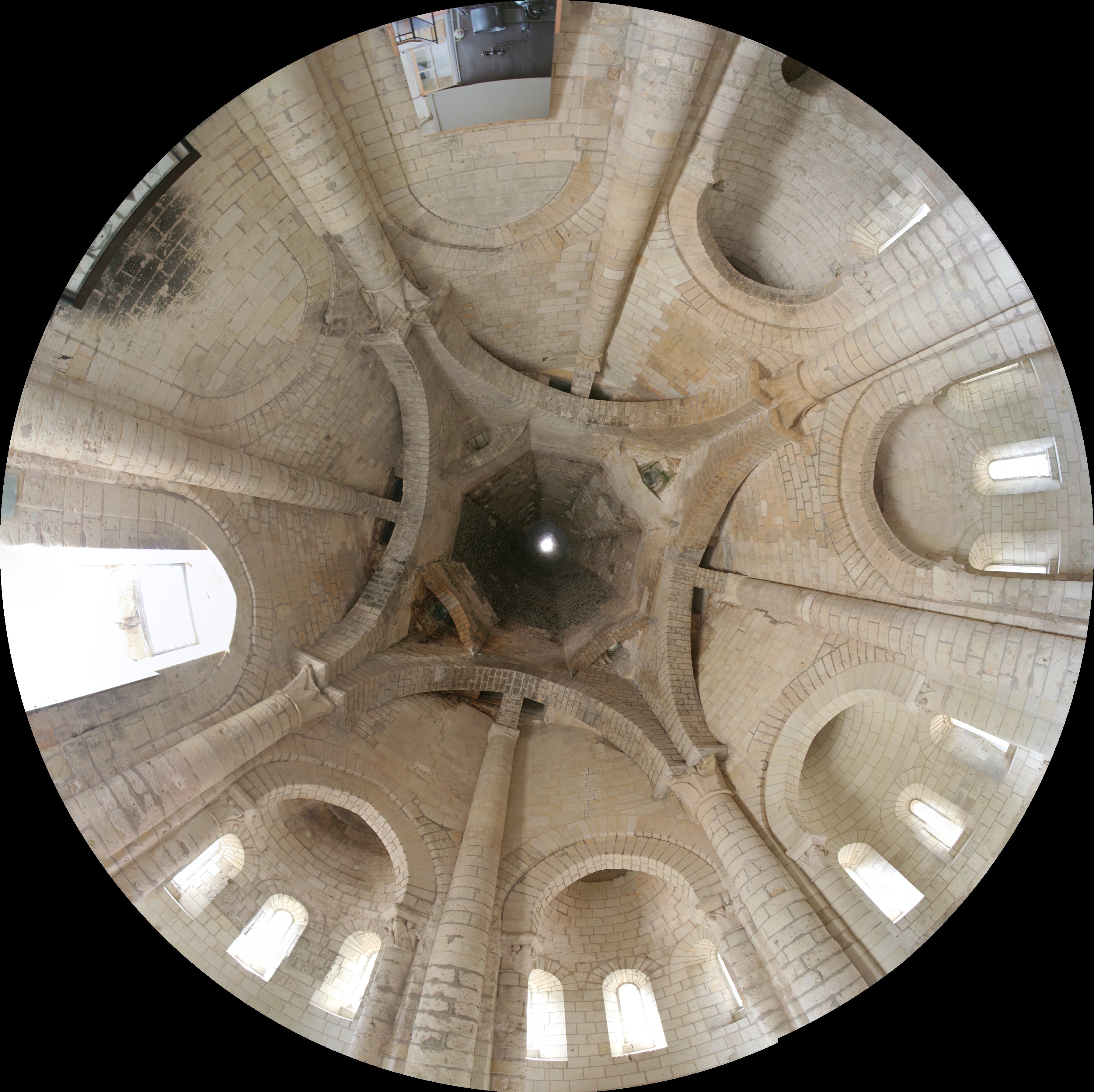 Fisheye view of the ceiling and chimney of the kitchen of the Fontevraud abbey. Panorama of 7 pictures taken with Canon 350D, Canon EF-S 10-22 @ 10mm.